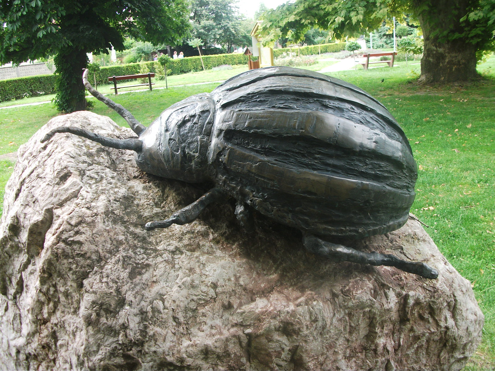 In 1997 Mihály Búzás and József Szolnoki erected the bronze statue for the colorado potato beetle in Hédervár.